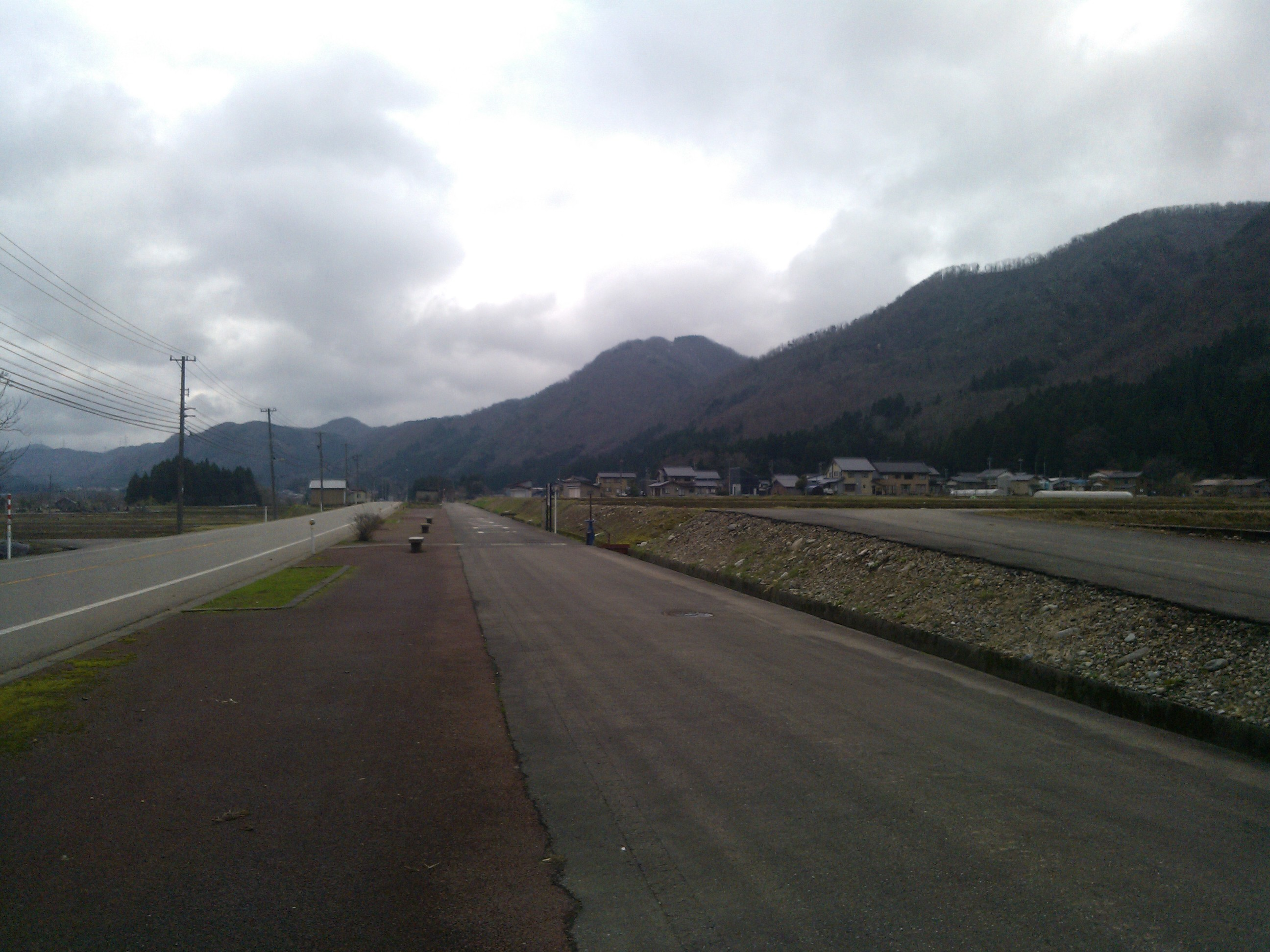 Site of the former Segino station on the disused Hokutetsu Kinmei line railway. Now part of the Tedori Canyon Road cycle path.